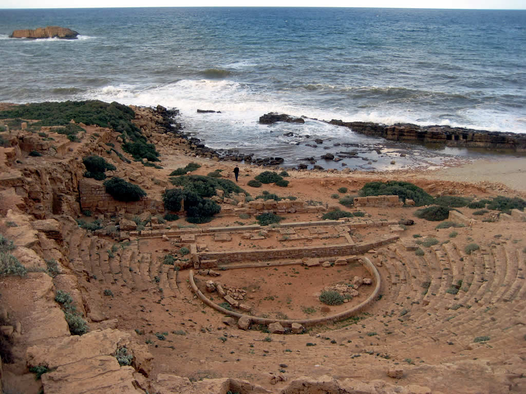 The Greek Theater lies at the eastern end of ancient Apollonia.